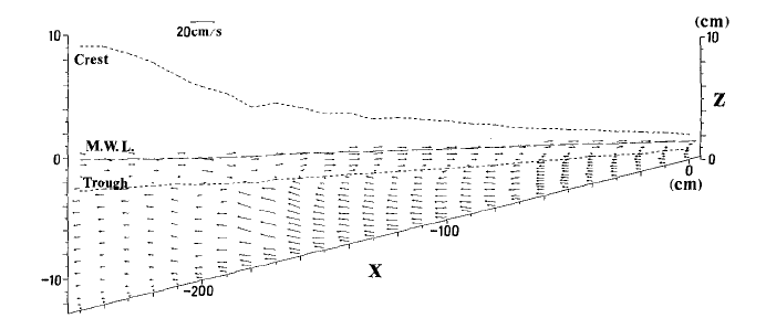 Mean flow-velocity vectors in the undertow under plunging waves, as measured in a laboratory wave flume. Below the wave trough, the mean velocities are directed offshore. The beach slope is 1:20; note the vertical scale is distorted relative to the horizontal scale. Figure 8 in: A. Okayasu, T. Shibayama, and N. Mimura (1986) "Velocity field under plunging waves". In: B. L. Edge (Ed.), Proceedings of the 20th International Conference on Coastal Engineering, Taipei, vol. 1, ASCE, pp. 660–674.